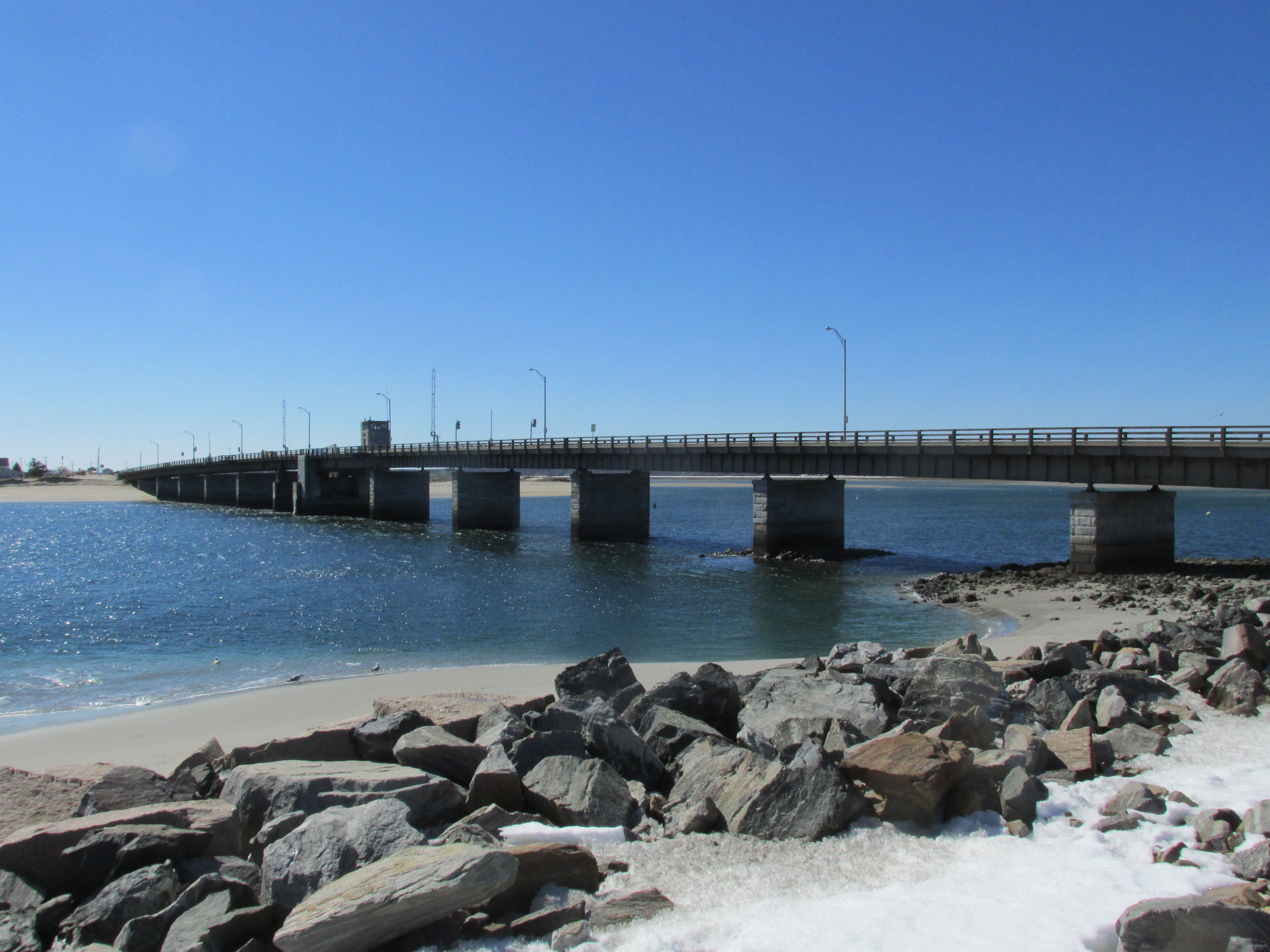 Hampton Bridge, Hampton Beach New Hampshire - 2014